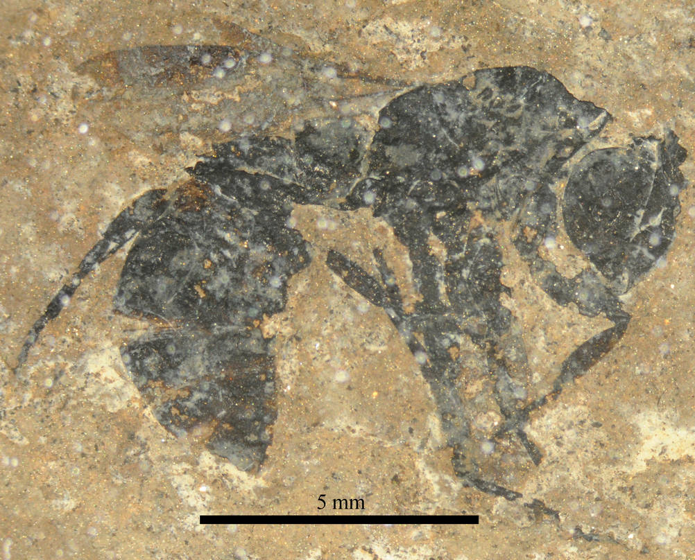 The Messelepone leptogenoides holotype queen. Fossil preserved as a lateral impression. Specimen number SMFMEI4808